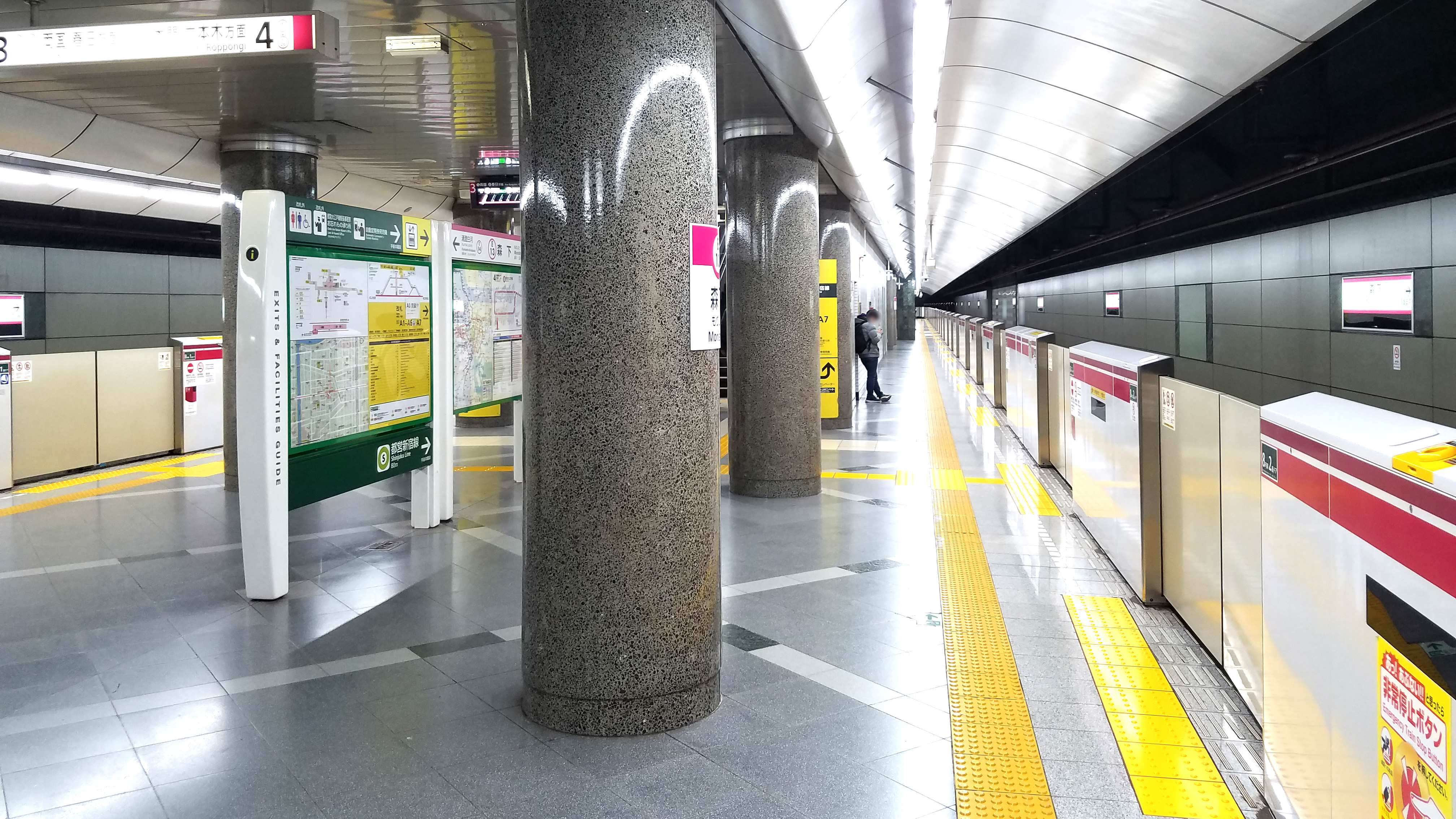 The platform at Morishita Station on the Toei Ōedo Line in Kōtō city, Tokyo, Japan